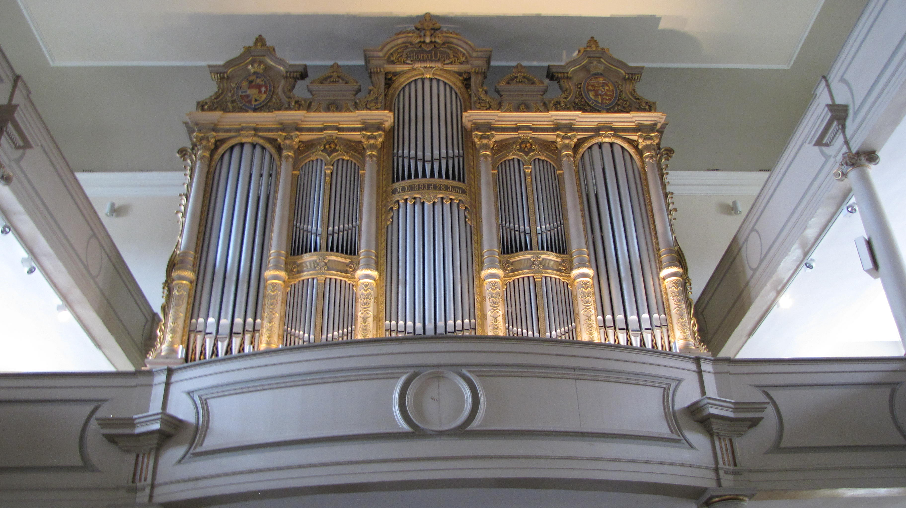 1893 Grüneberg Organ of Stadtkirche Neustrelitz